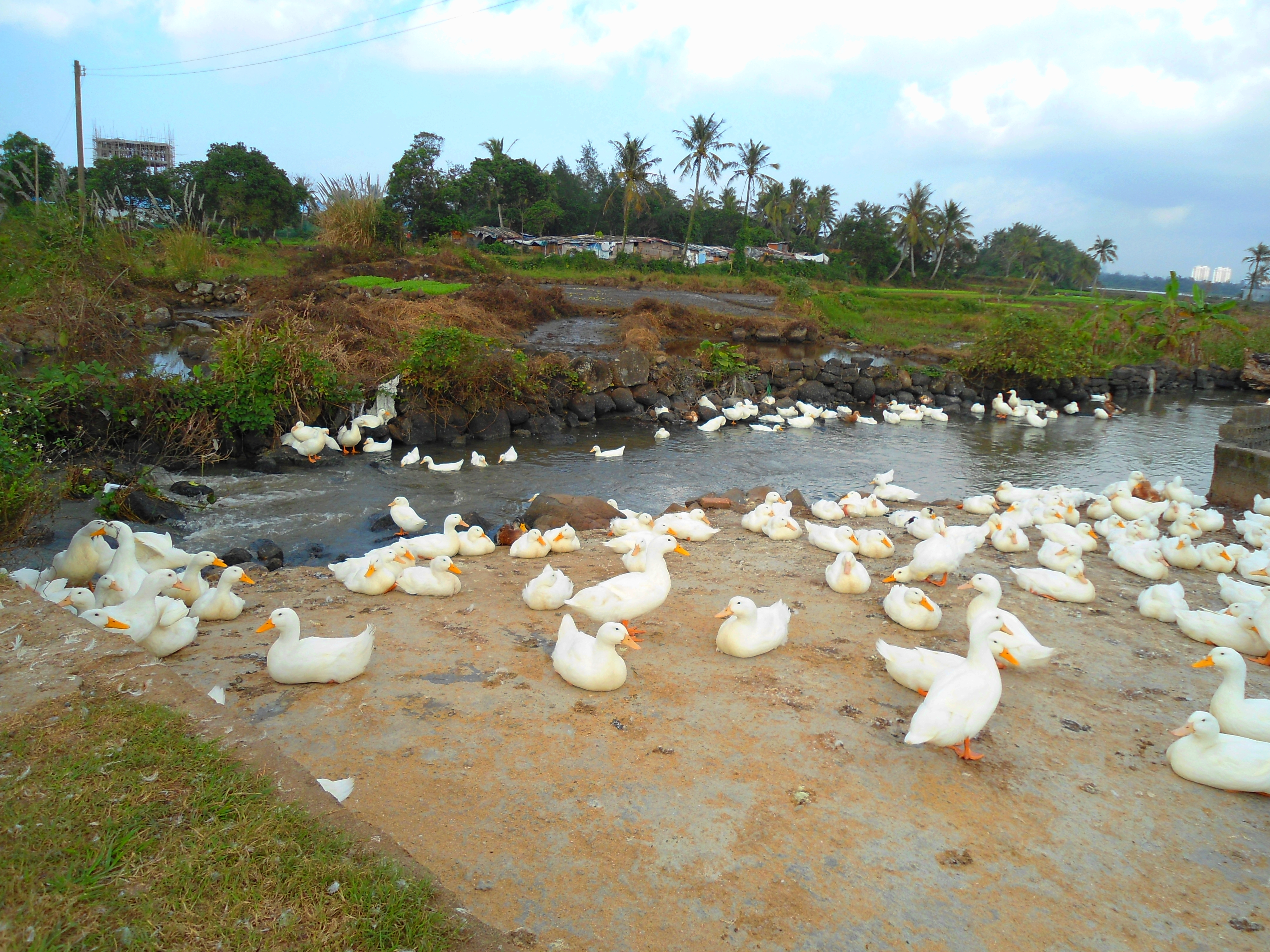 Duck farm in Hainan Province, People's Republic of China